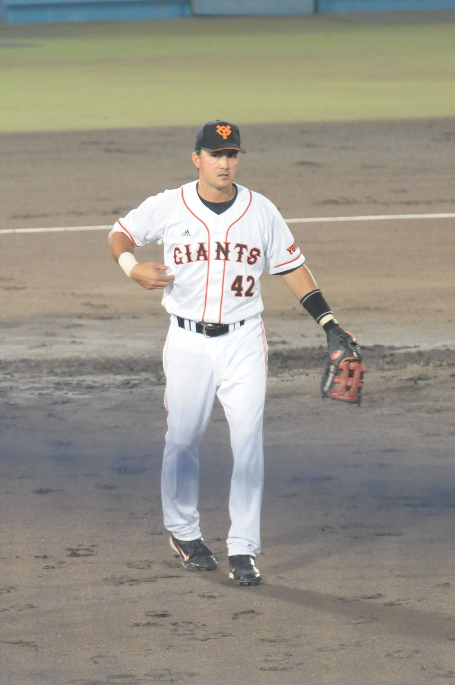 Edgar Gonzalez, infielder of the Yomiuri Giants, at Akita Prefectural Baseball Stadium.